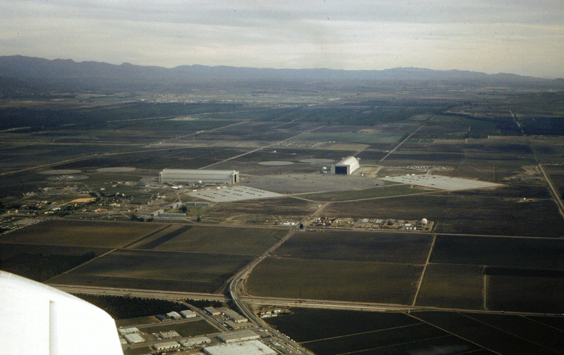 Marine Corps Air Station Tustin.